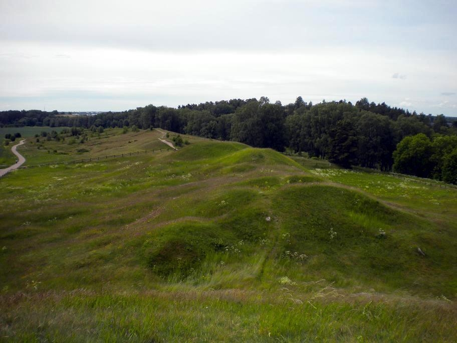 Old Upsala’s smaller tumuli, as released by image creator RistessonPlace: Gamla Uppsala, Sweden